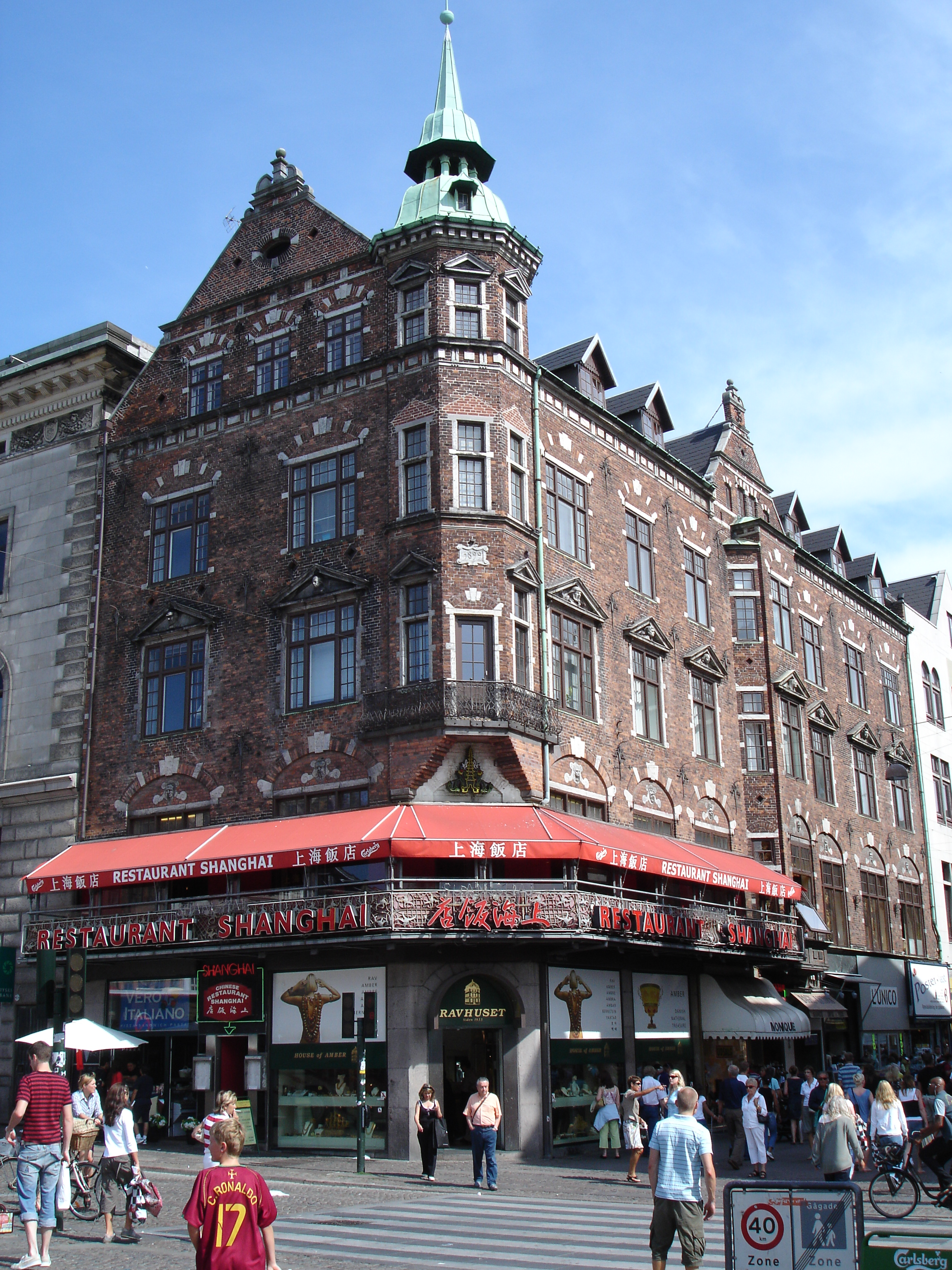 The corner of Gammel Torv and Nygade (no. 6), designed by Aage Langeland-Mathiesen and built in 1898. The tobacco shop C. W. Obel's first shop in Copenhagen was situated in the building from 1912, opened in connection with the company's 125 year anniversary. source